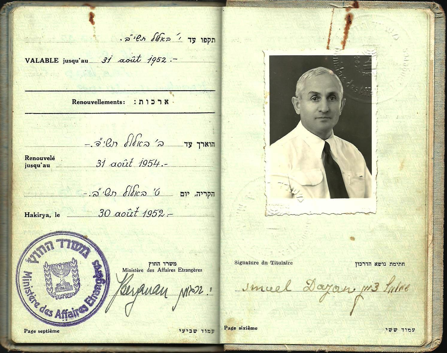 1951 Israel Service passport used by Shmuel Dayan.